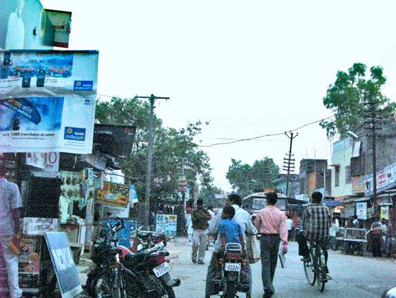 A street in Mainpuri town, Mainpuri is a town of historical importance too, because the last king of mainpuri was one the of the first freedom fighter of INDIA. One of the [RATHORE] branch from [FARUKHABAD](Khimsepur) is also there and known for its freedom movement and political involvement. Shivbaksha Singh Rathore (2nd among five brothers), a renown Gandhiwadi and freedom fighter was elected as M.L.A. from Kishni town after independence and later on won many elections from the near by areas. Now his nephew Satish Singh Rathore is elected as Minister from the state in Mulayam singh yadav's regime.